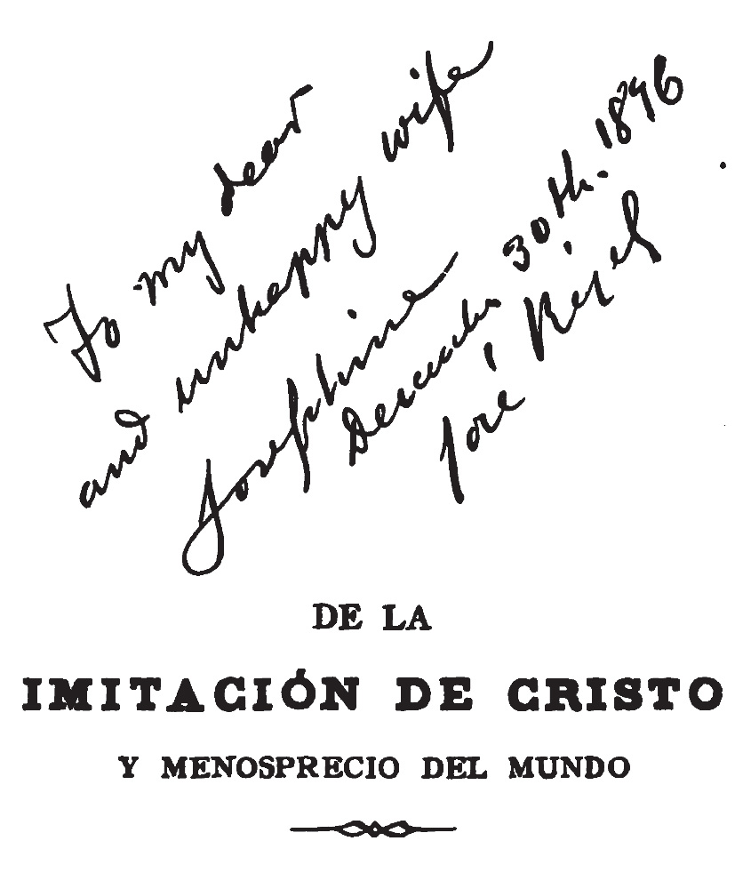 The title page of the book given by Rizal as a wedding gift to his new wife, Josephine Bracken, on the day of his execution.